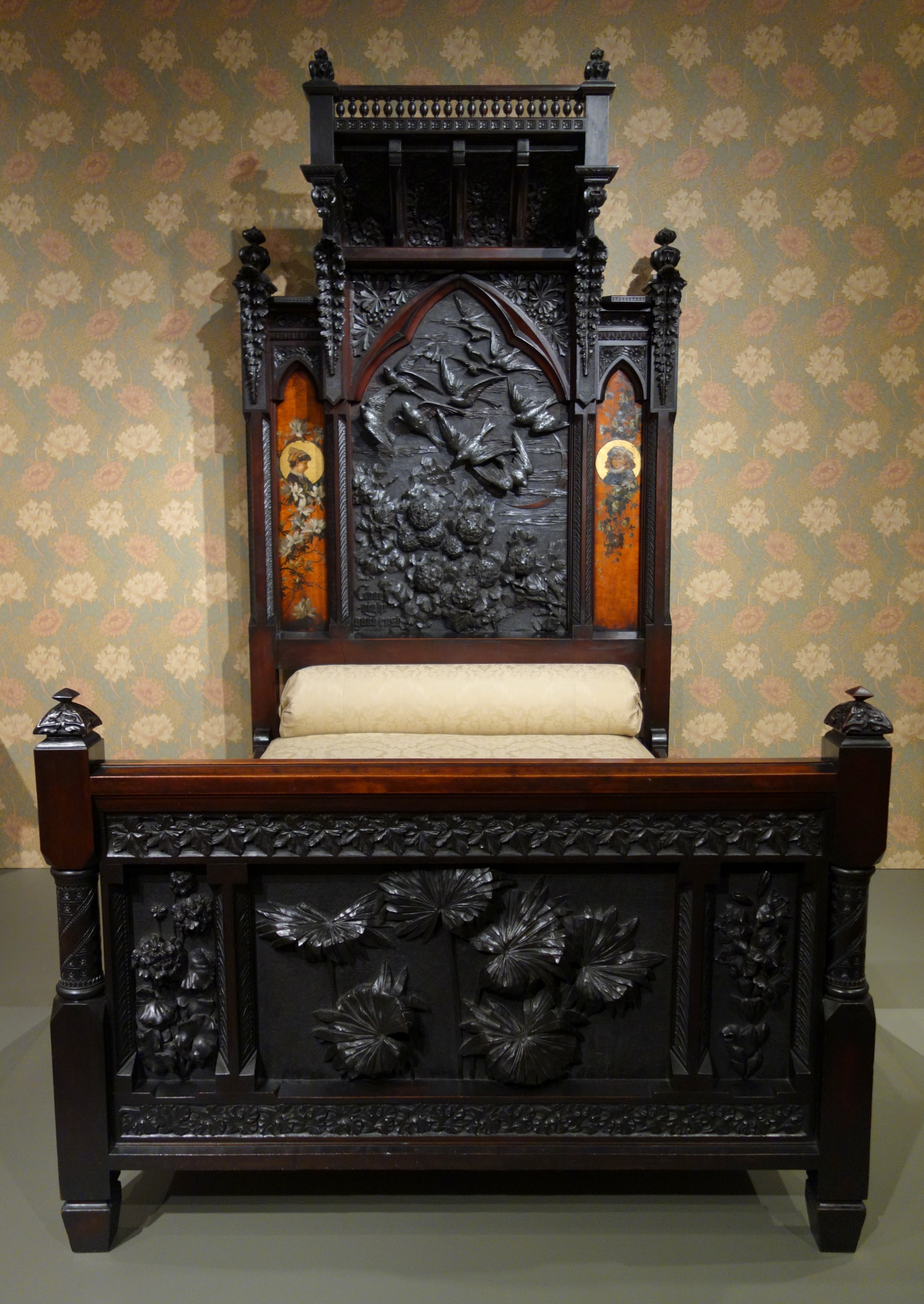 Exhibit in the Cincinnati Art Museum, Cincinnati, Ohio, USA. This artwork is in the public domain because the artist died more than 70 years ago.